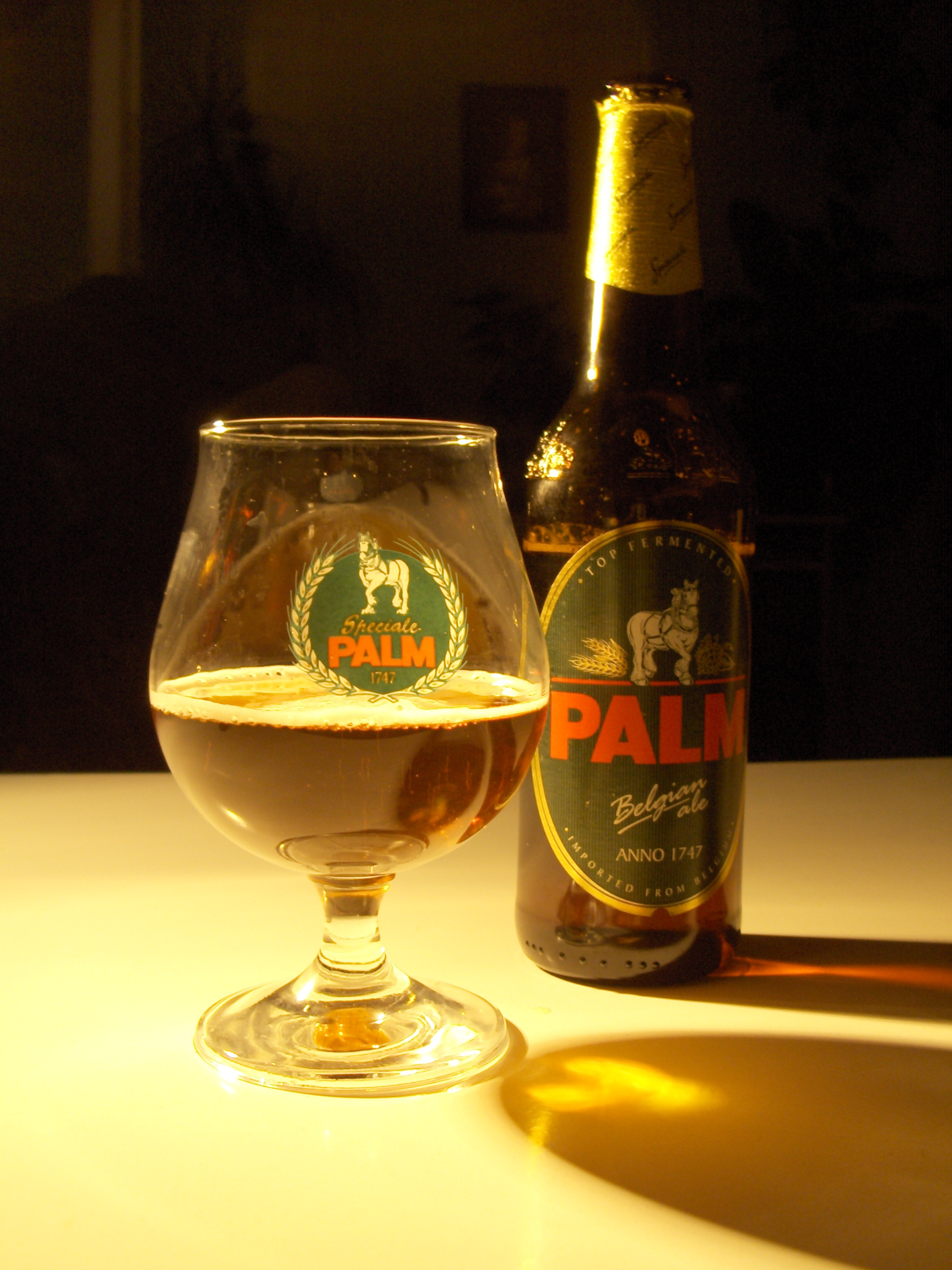 A glass and a bottle of Palm Beer . Belgium .